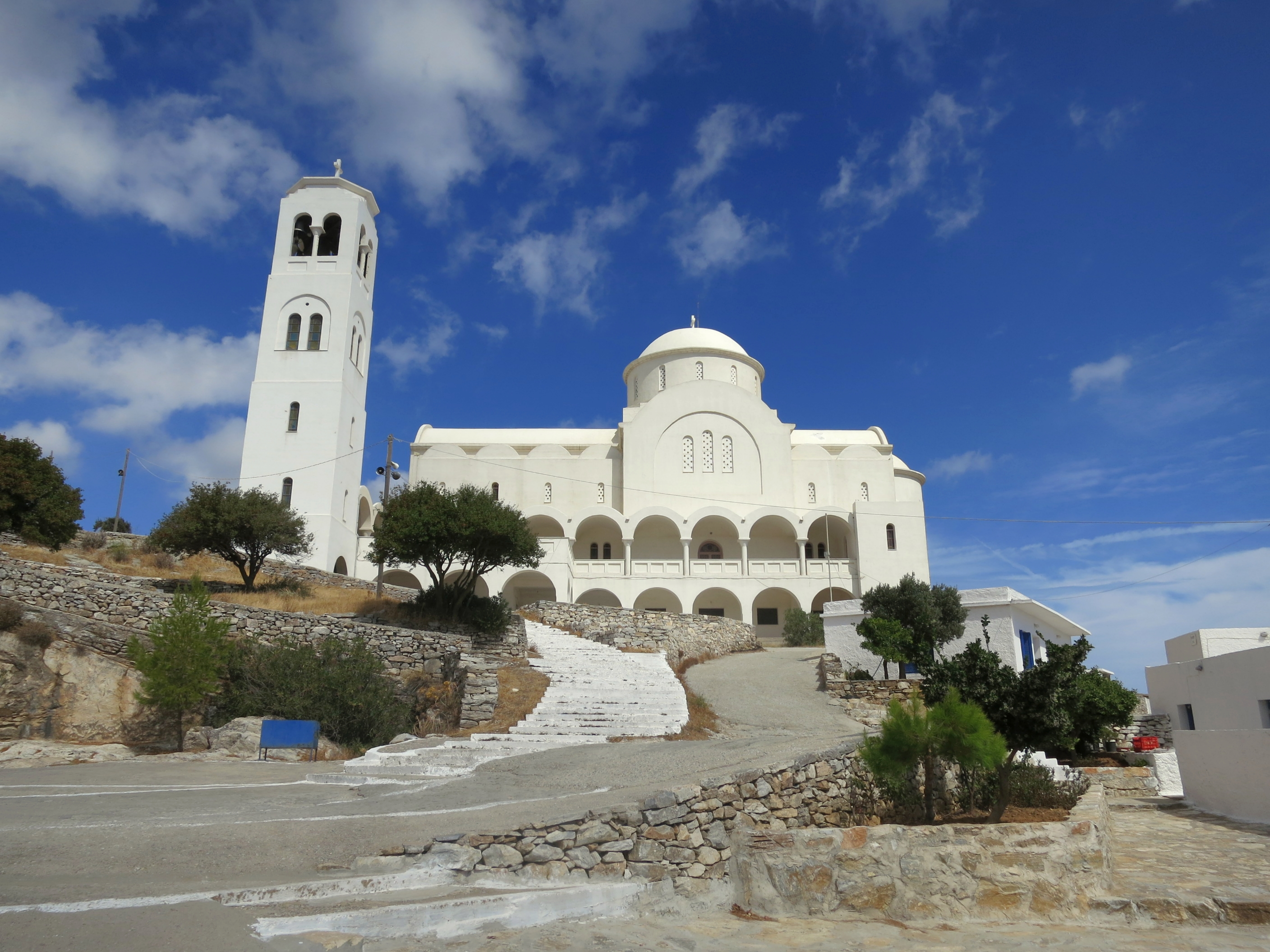 Panagia Argokiliotissa, new pilgrimage church, neo-byzantine. Naxos.